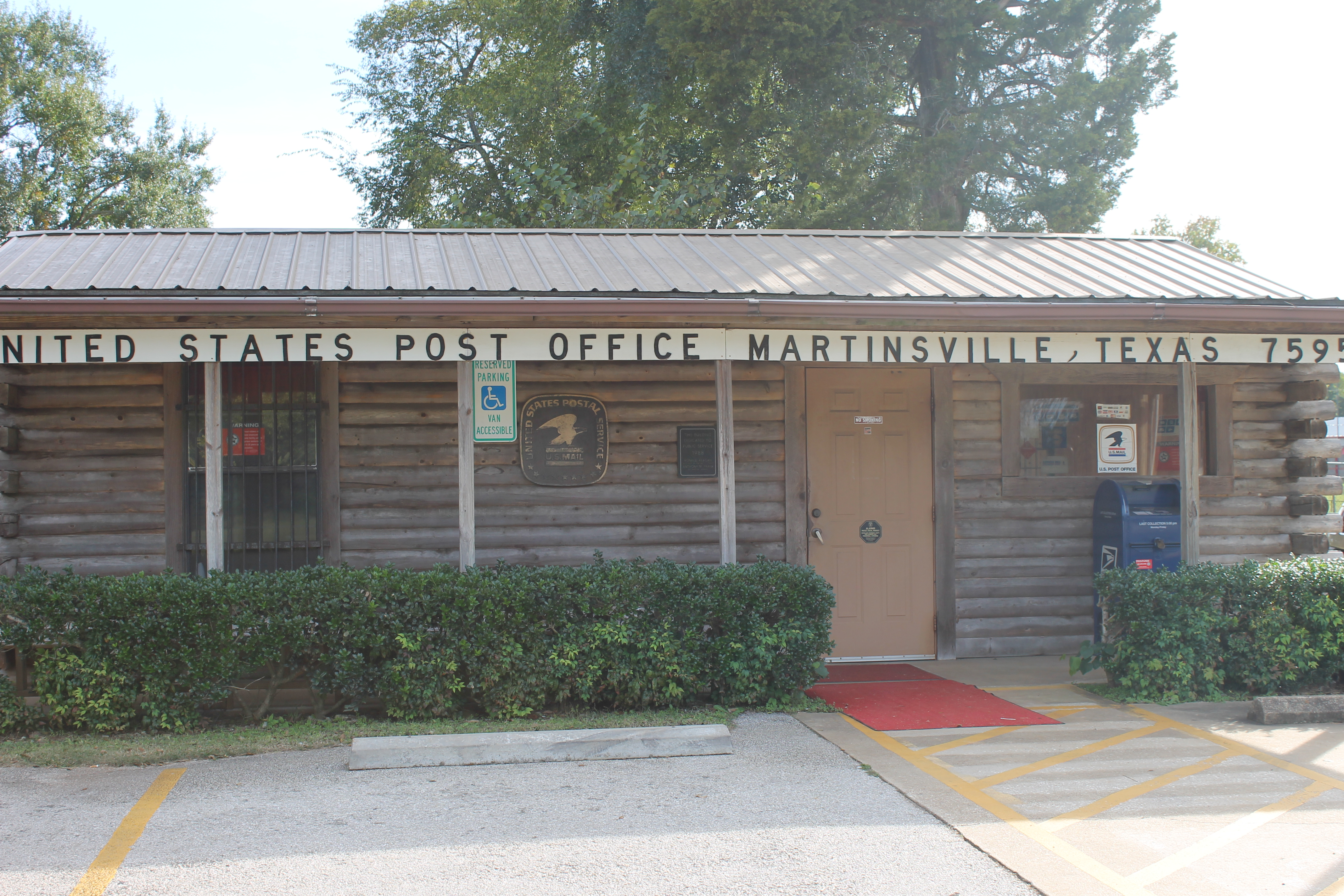 Log-style post office in Martinsville, TX